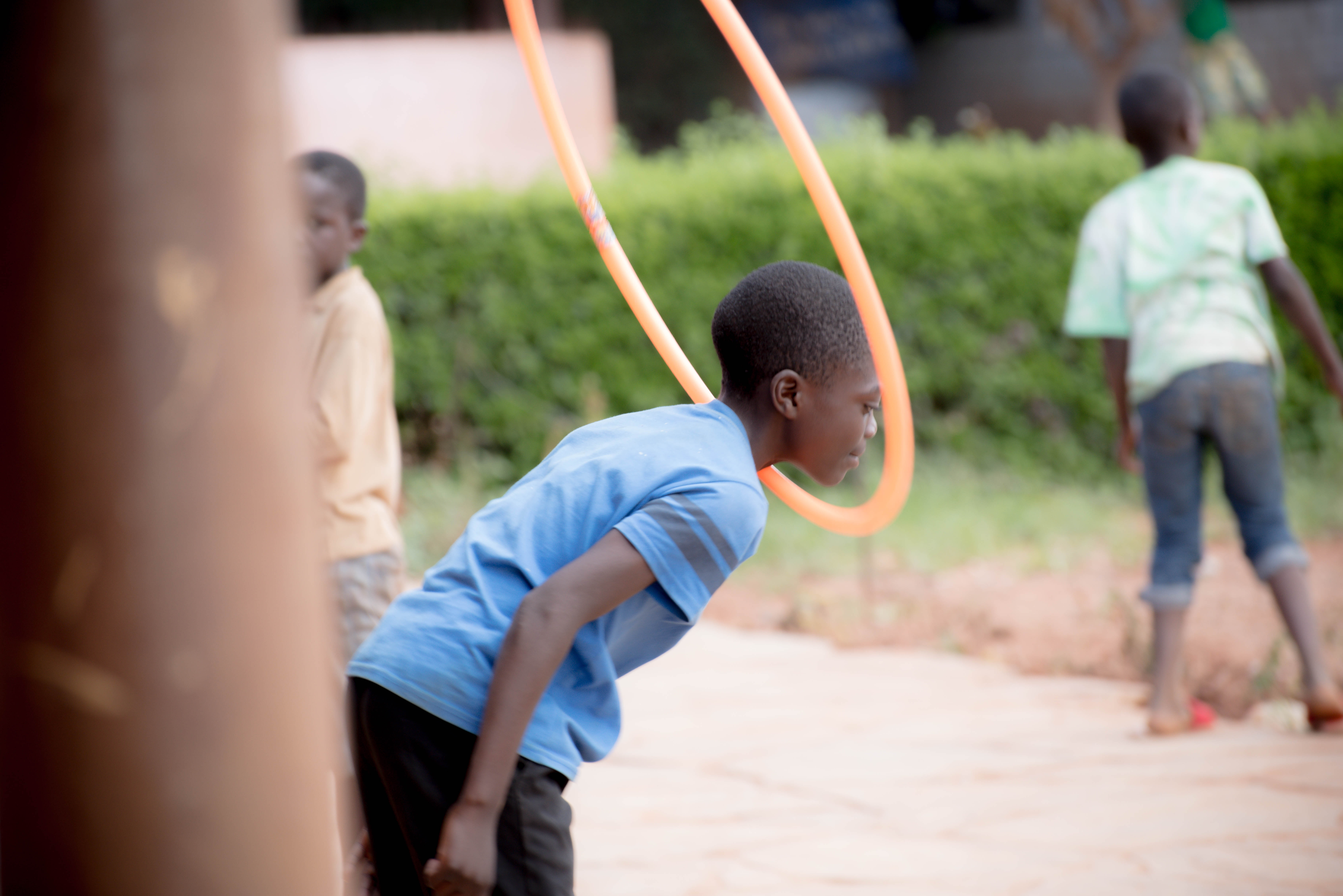 How Zambian kid play as the sun sets This is an image with the theme "Play" from: Zambia